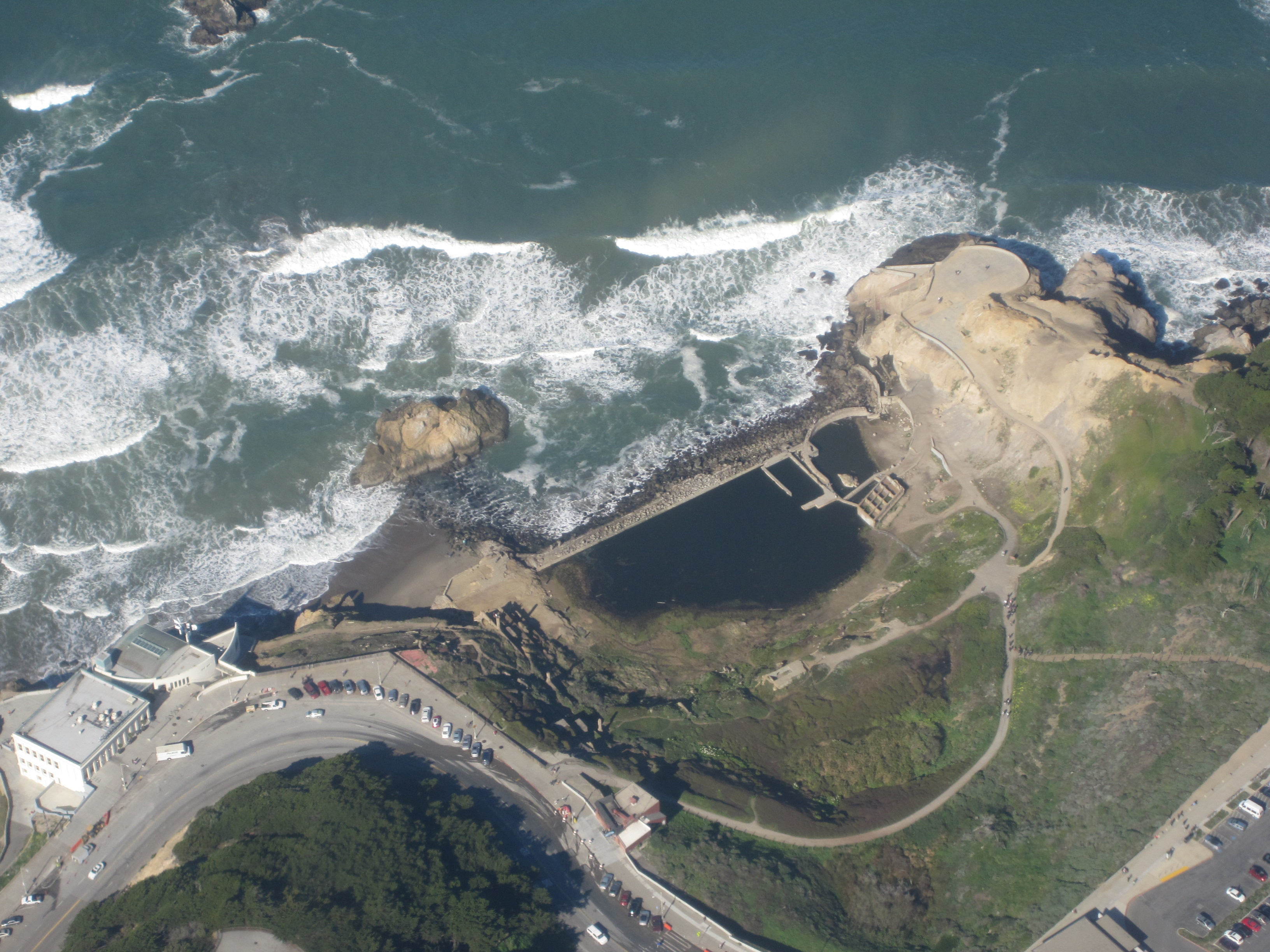 Sutro Baths & Seal Rocks, GGNRA